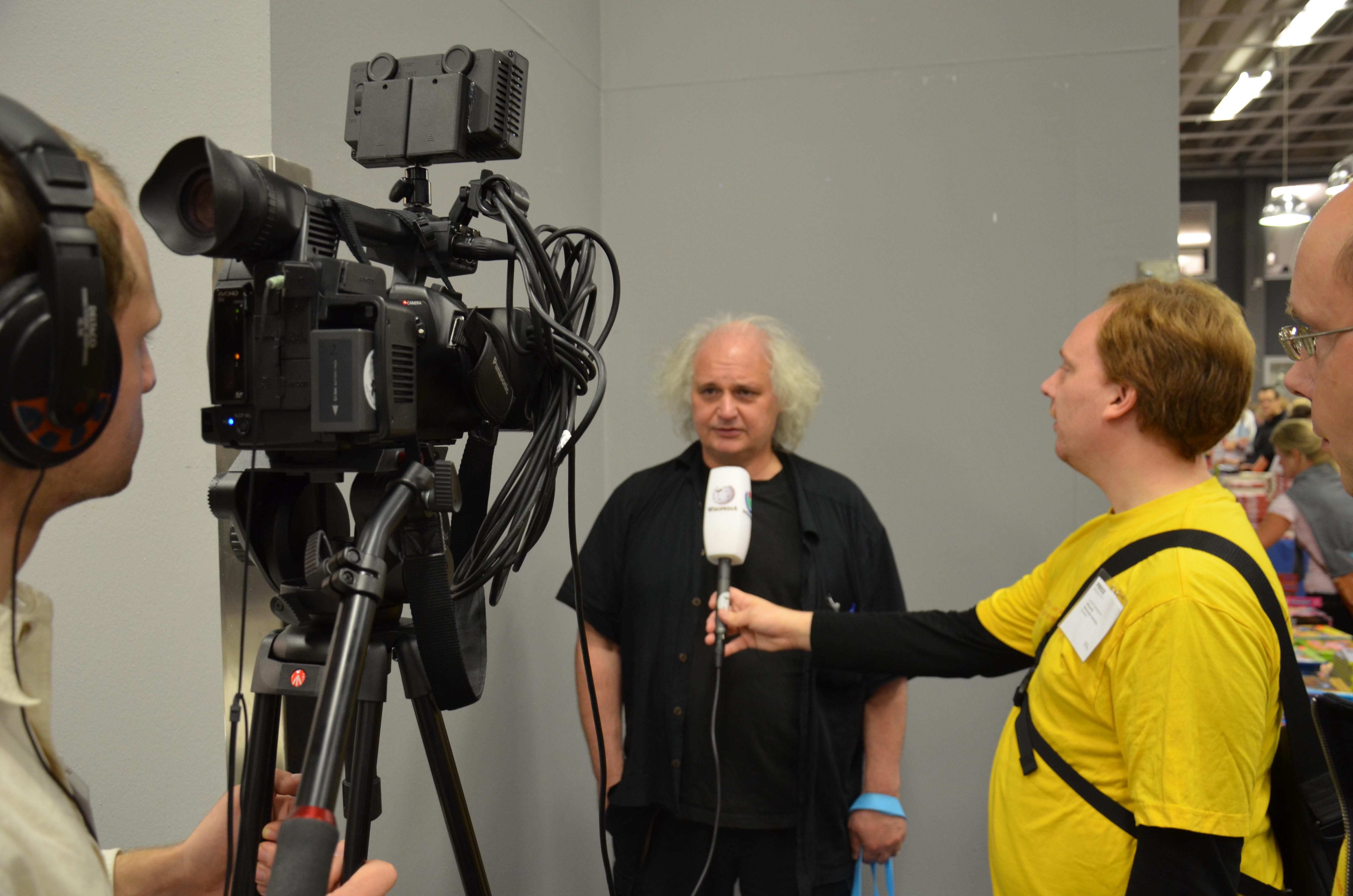 Interview of poet and journalist Göran Greider